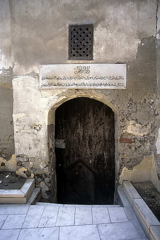 Entrance of the Ibn Luqman house, el-Mansura, Egypt